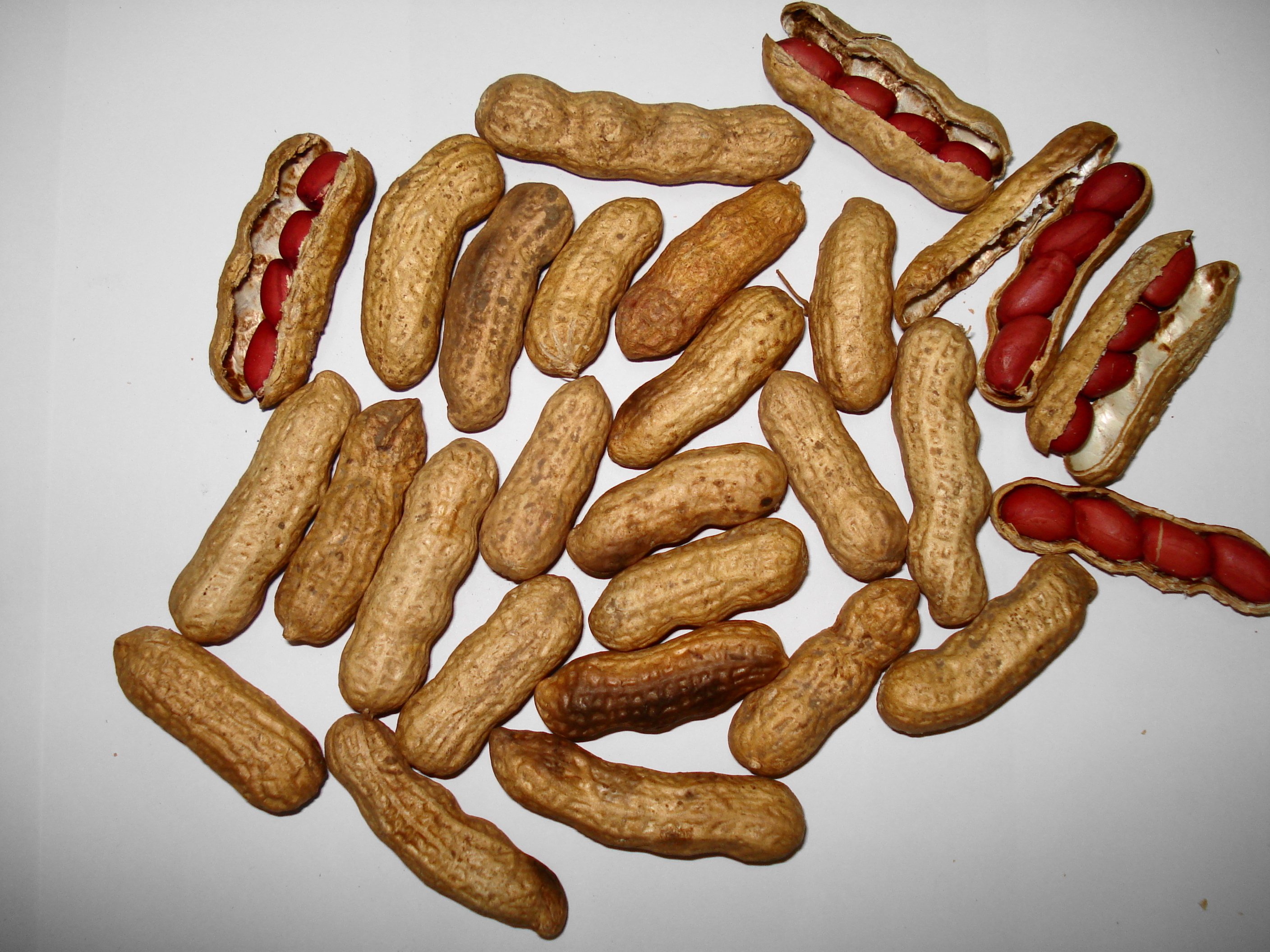 Moong phalli in urdu, this variety comes from chotta chinnar, 3-4 seeds in a single shell. Used in afghani pullao